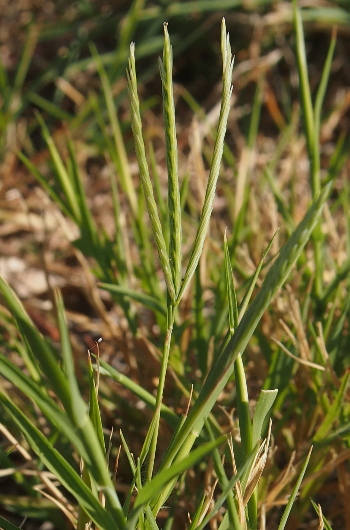 Brachyachne convergens flowers